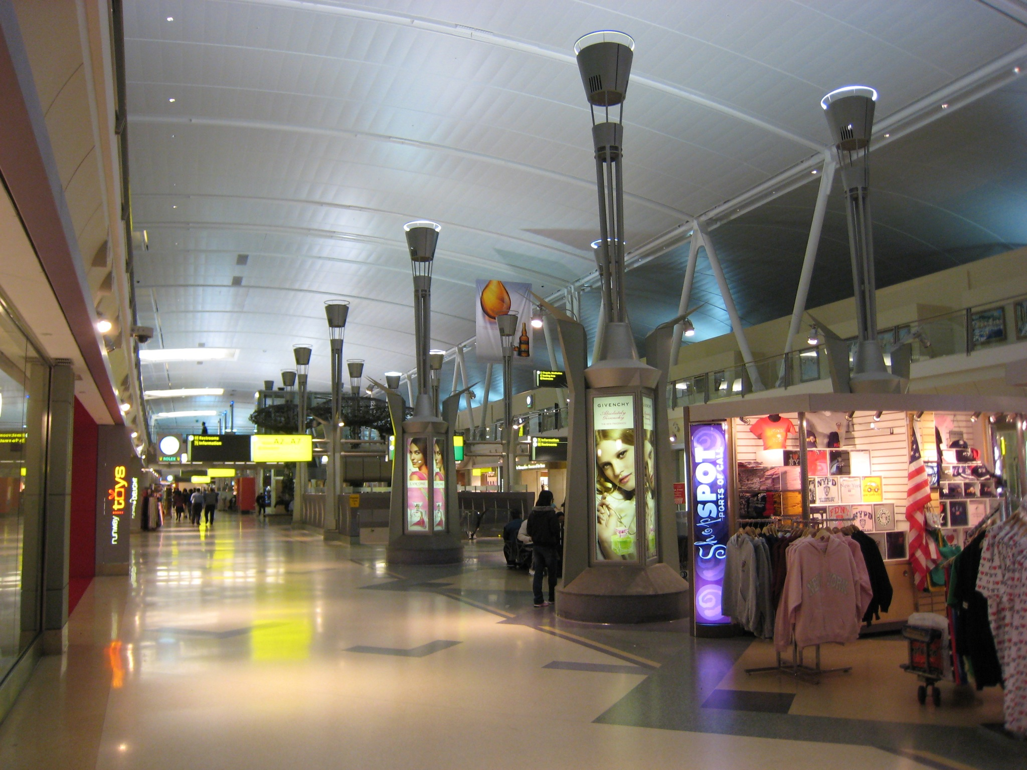 JFK Airport, Terminal 4 Shopping Mall